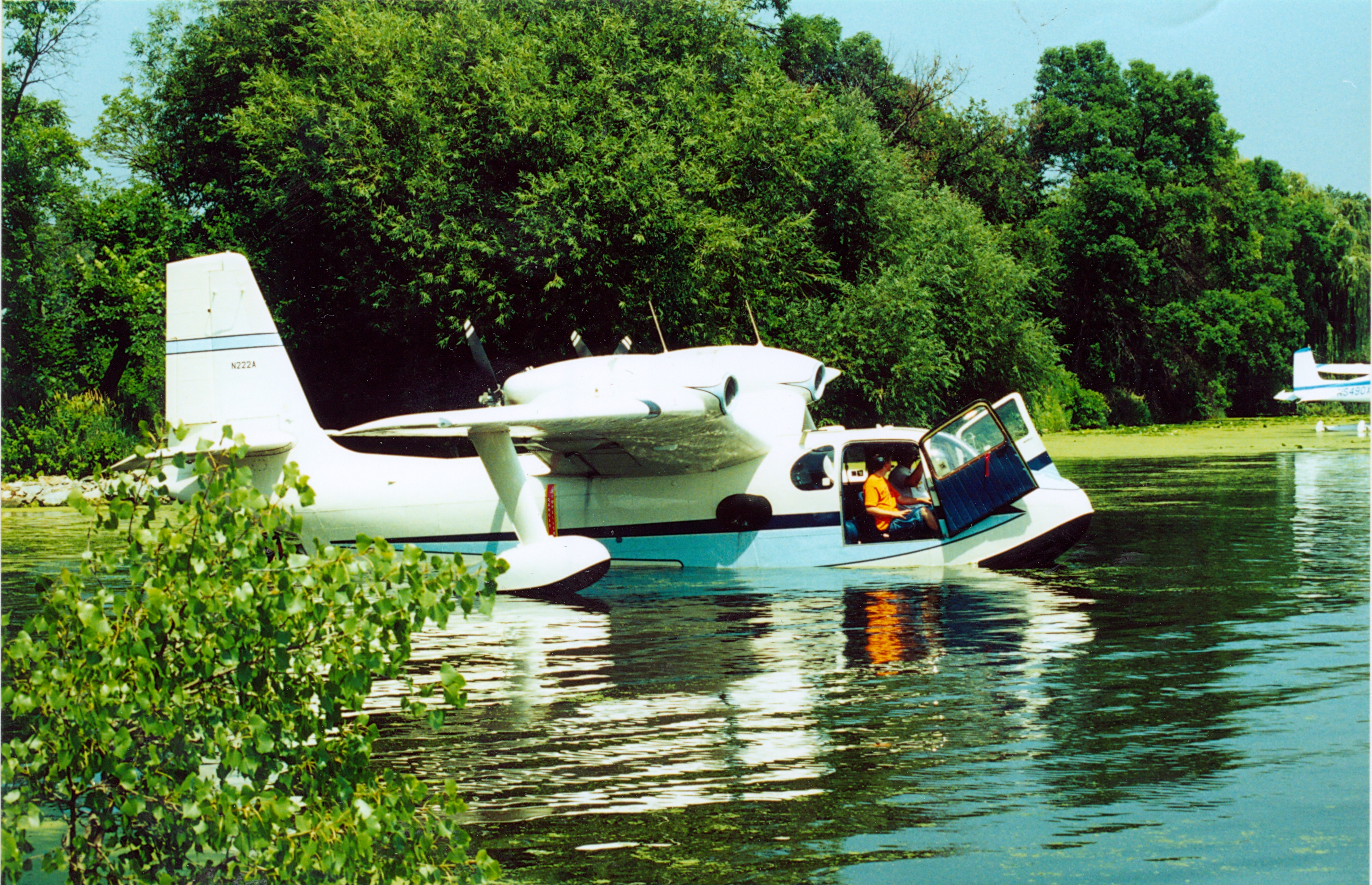 Piaggio P.136 at Oshkosh